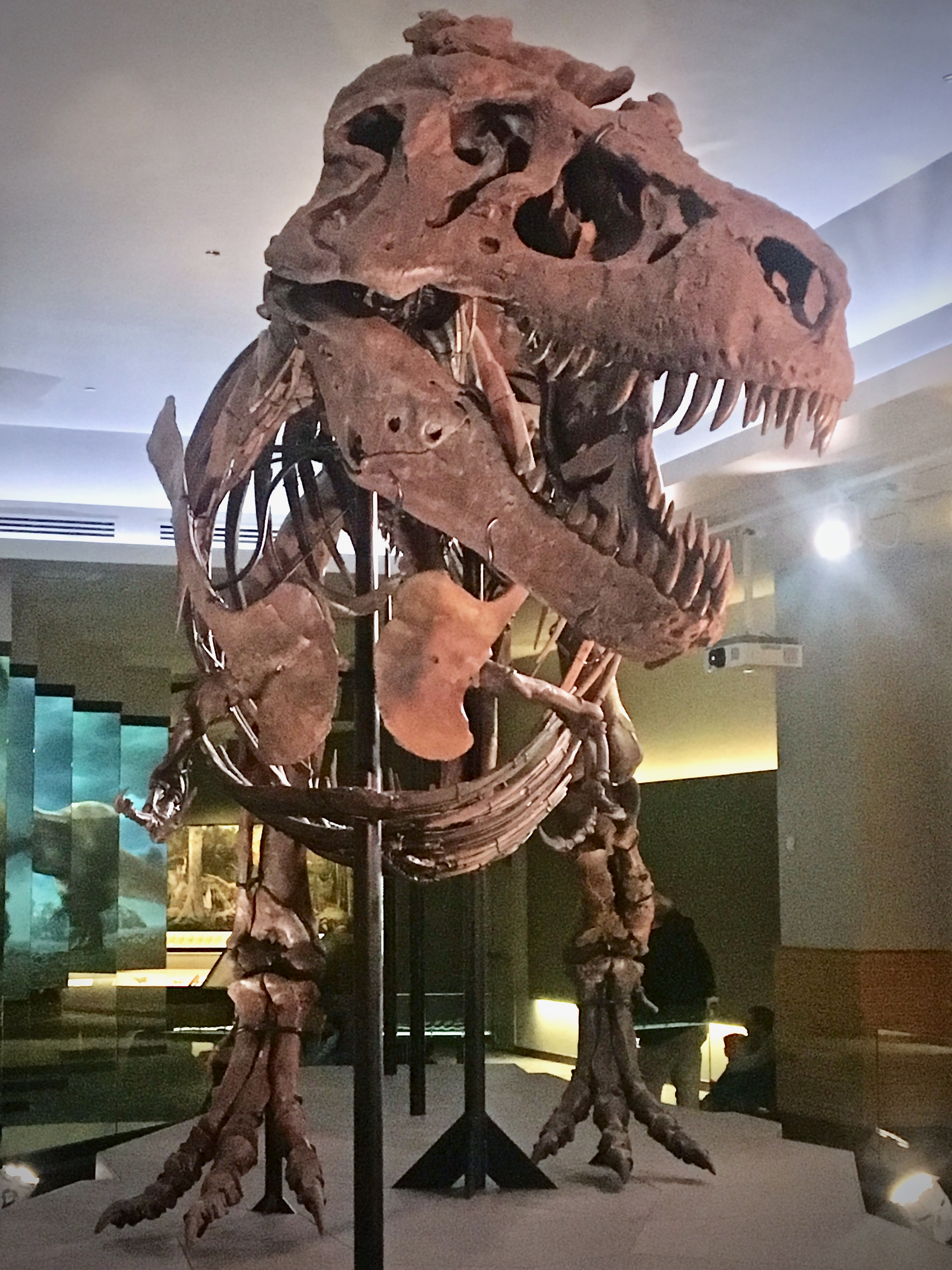 Sue the Tyrannosaurus rex on display at the Field Museum of Natural History, Chicago, Illinois